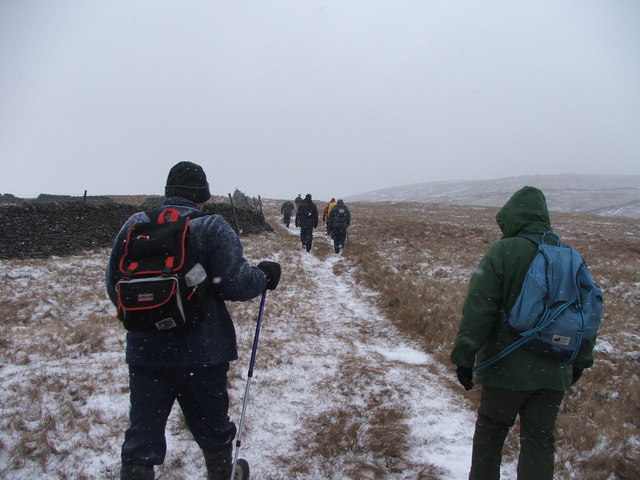 Starbotton Peat Ground. Looking N.